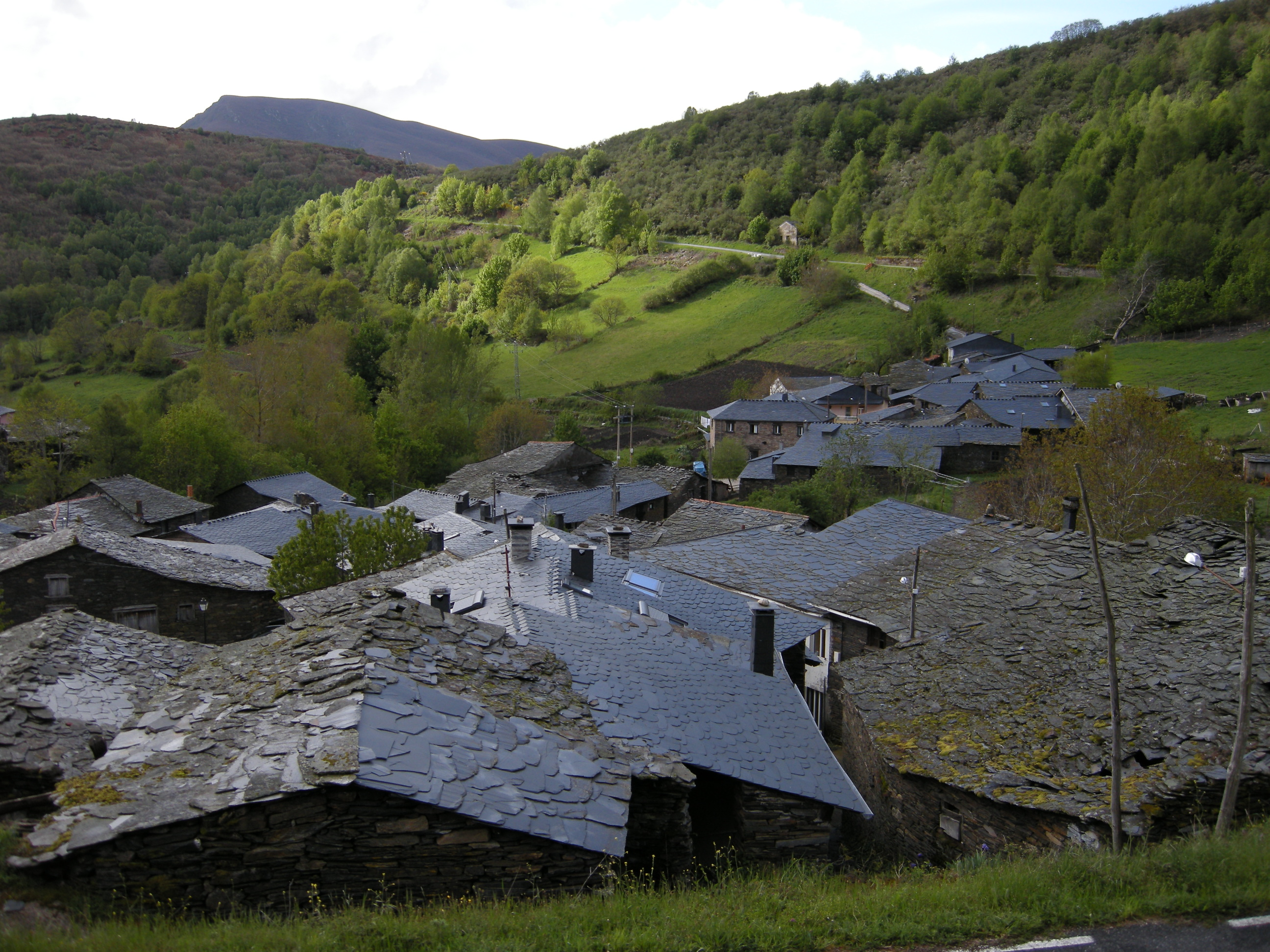 A seara, lugar da parroquia da Seara, no concello de Quiroga